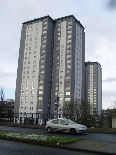 Highrise flats Cardonald Original description: Highrise flats in Cardonald Across Berryknowes Road from Cardonald station.